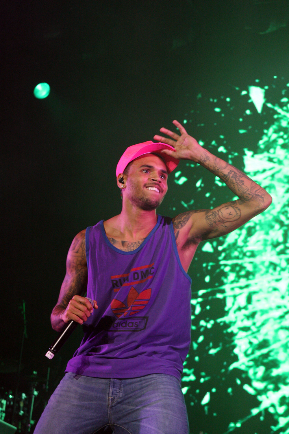 Supafest 2012, Sydney, Australia; Chris Brown, Kelly Rowland, Lupe Fiasco, Naughty By Nature and more